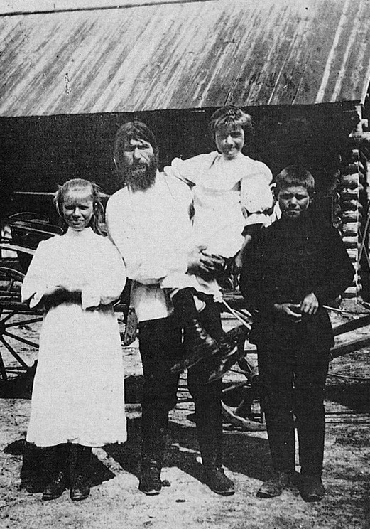 Rasputin and his three children, Matryona, Varvara et Dimitri.